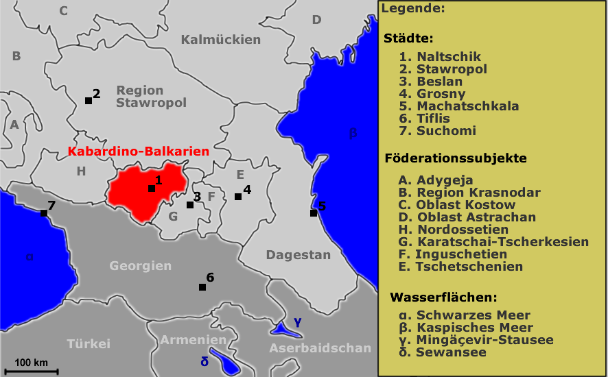 Kabardino-Balkaria, northern Caucasus and surrounding region (political); German